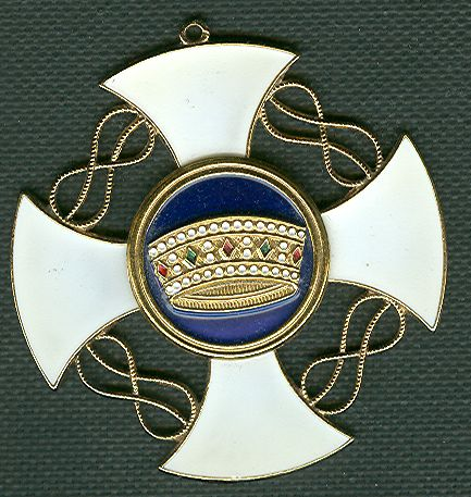 My own collection. Scan. Robert Prummel Groningen